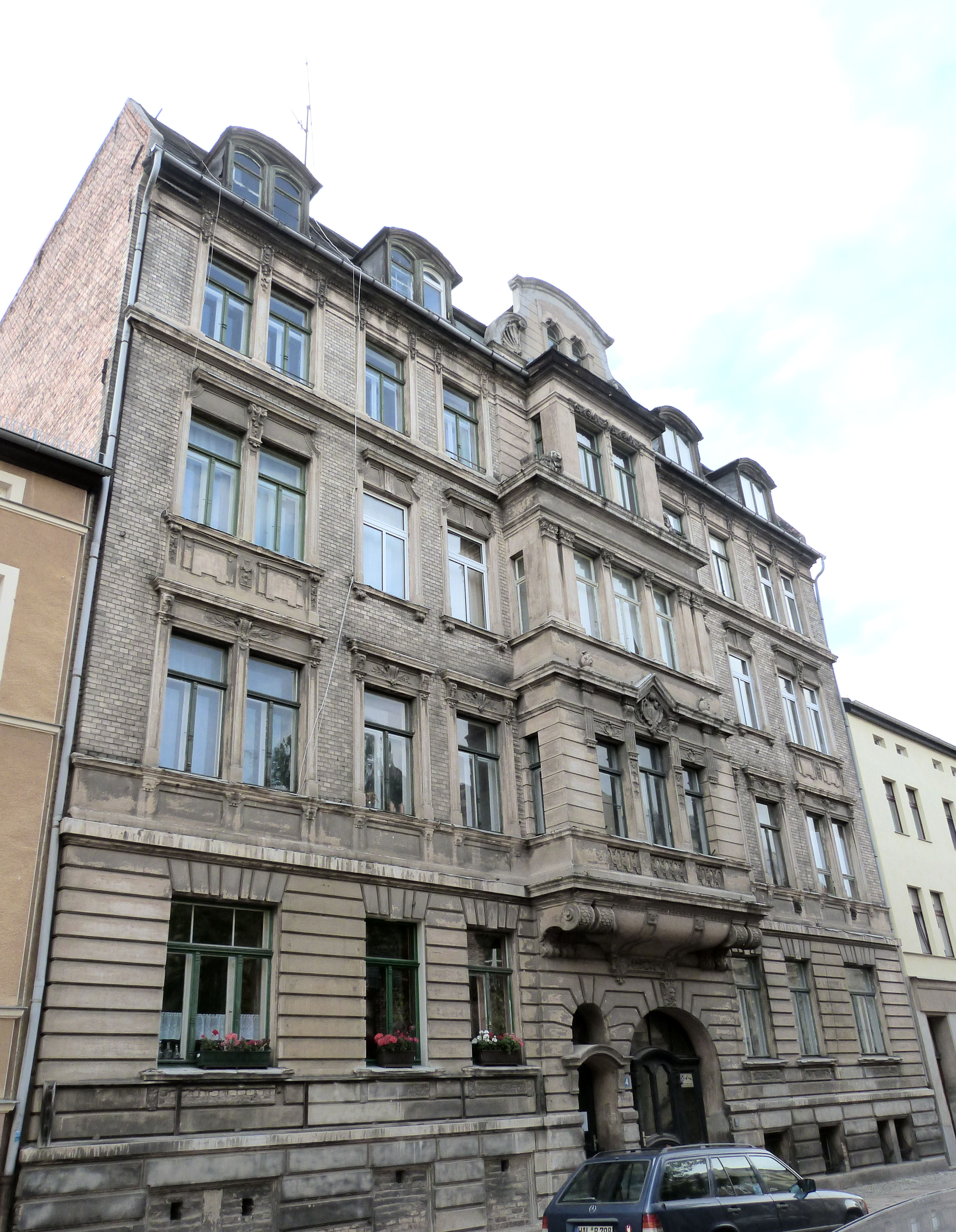 House No. 4 Georg-Cantor-Strasse in Halle (Saale)